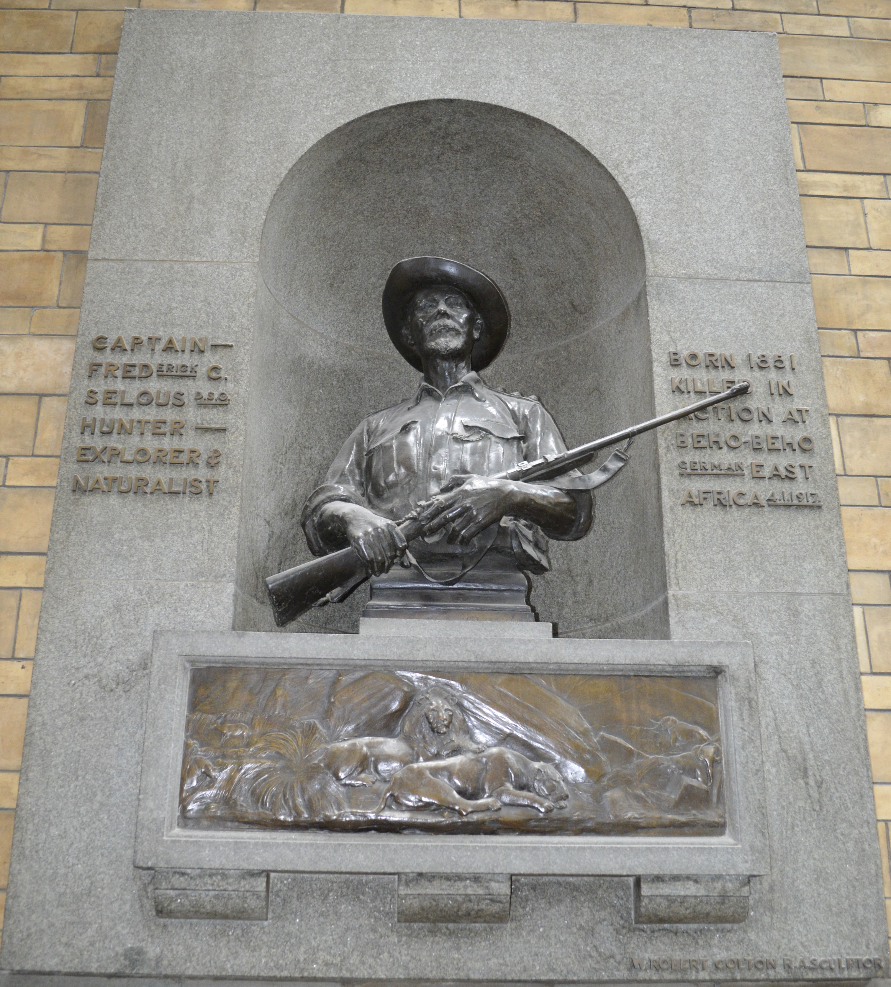 Taken at the London, England, Natural History Museum in March 2014.